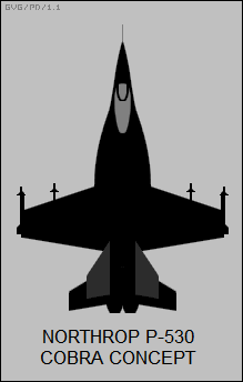 Top-view silhouette of the Northrop P-530 "Cobra" concept.